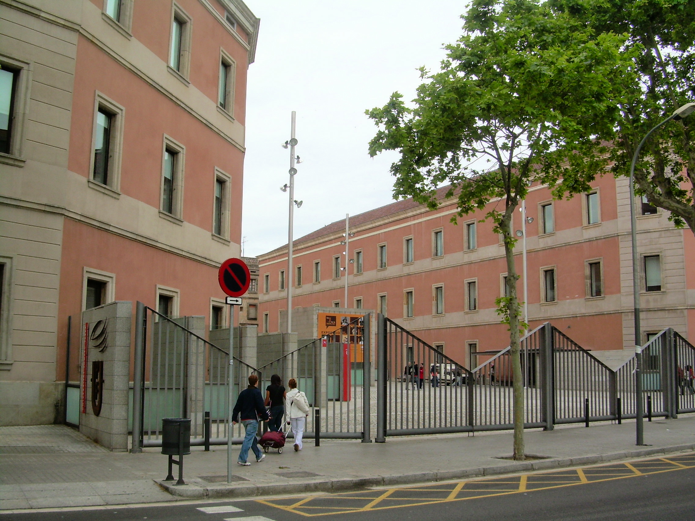 Pompeu Fabra University